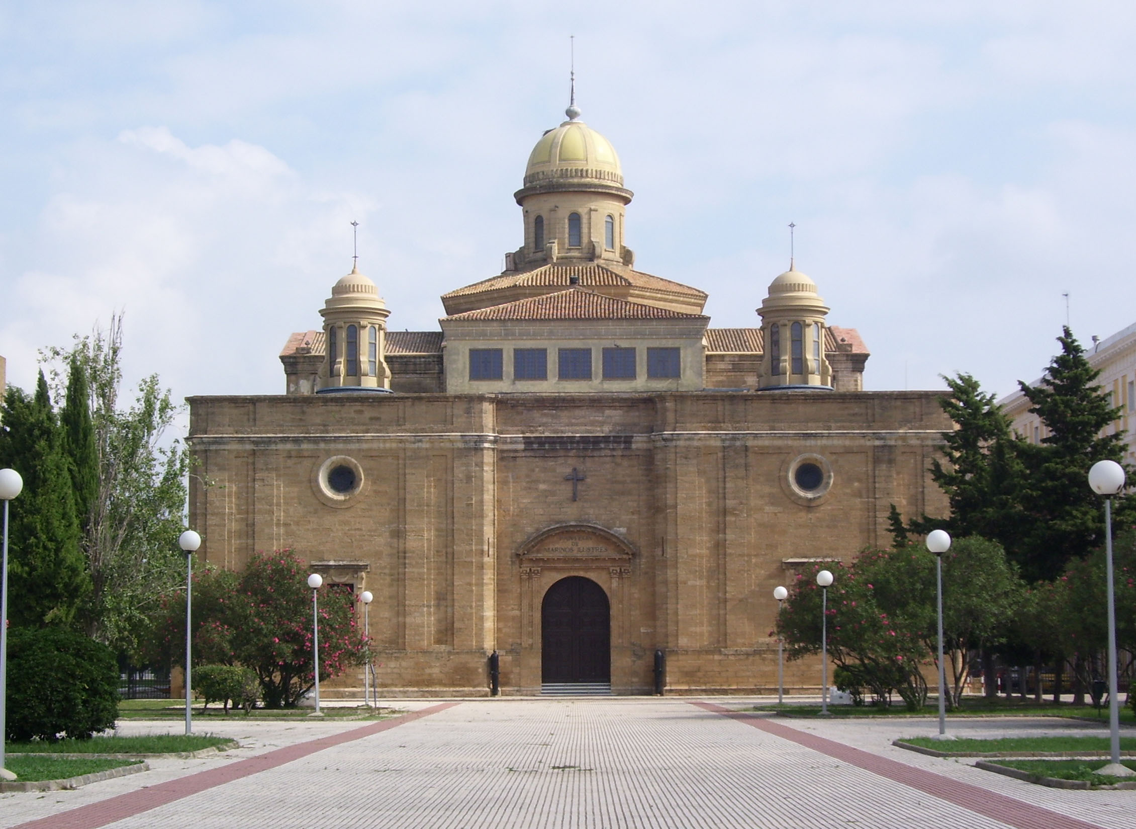 "Mausoleum of Distinguish Sailors"'façade, in San Carlos' settlement in San Fernando, Spain.